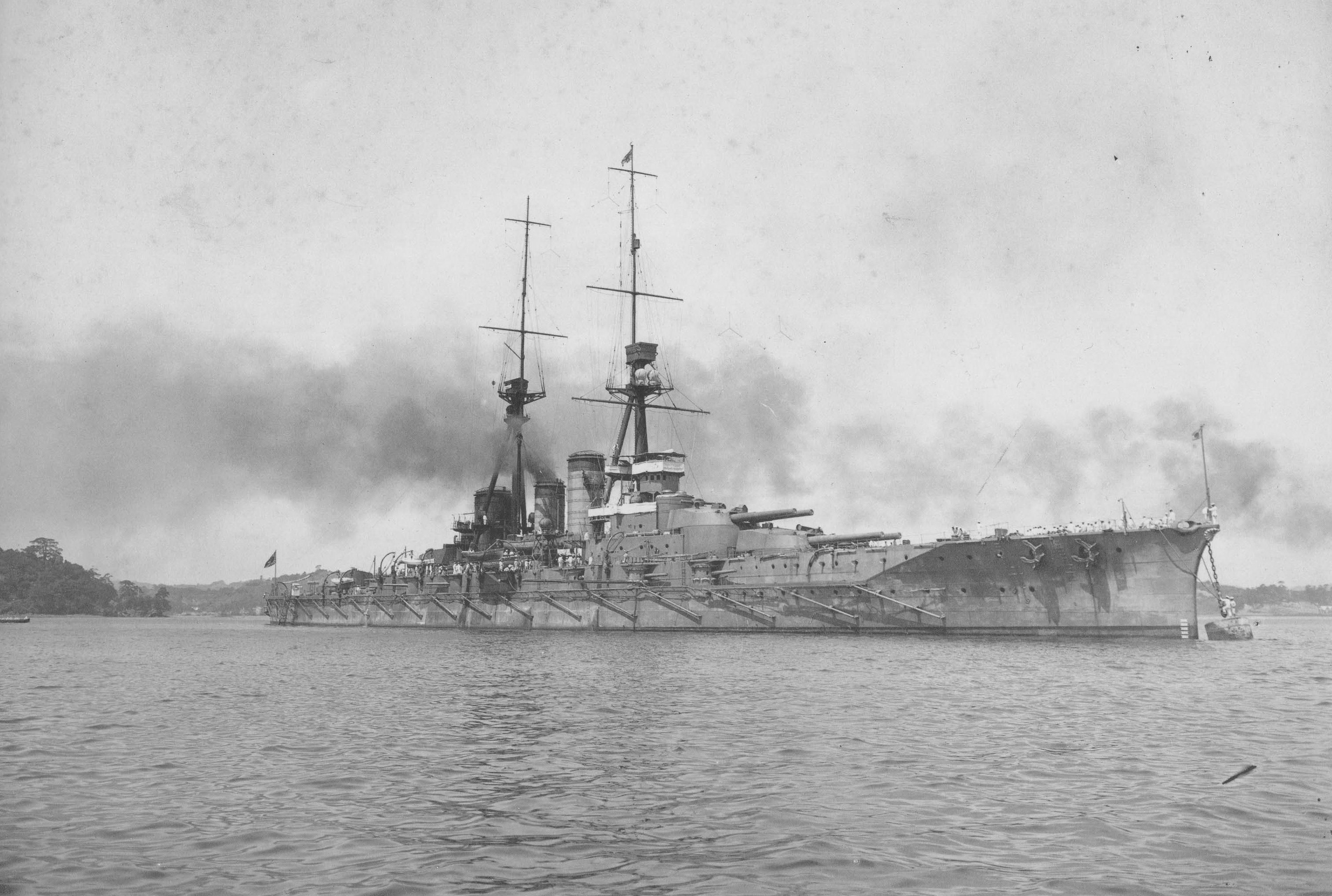 Imperial Japanese Navy battlecruiser Haruna at Yokosuka, Japan.